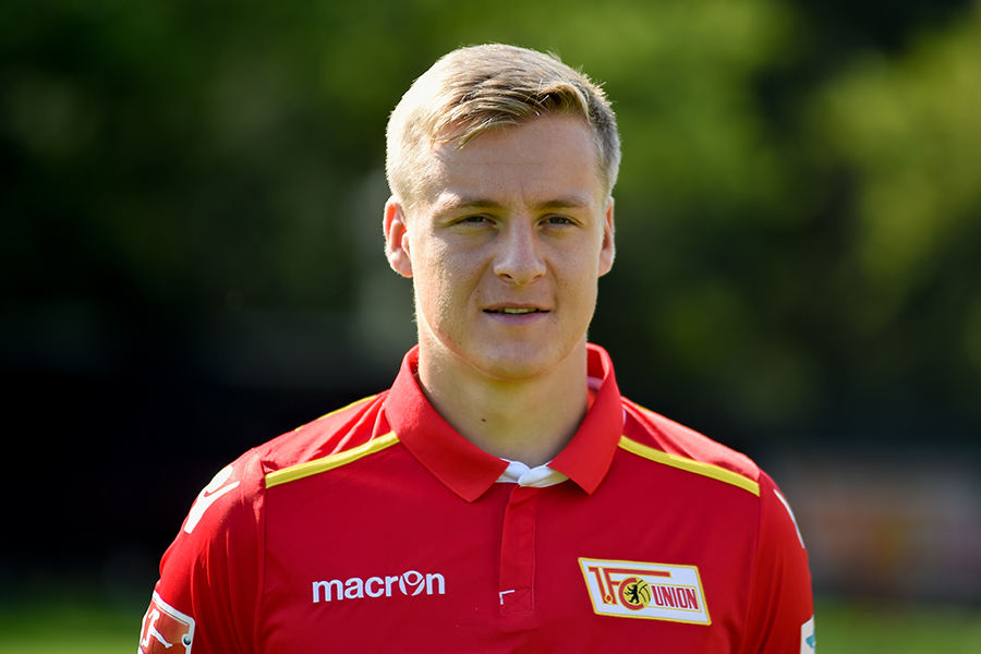 Felix Kroos